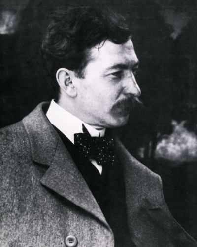 Photo of the American painter Richard Edward Miller